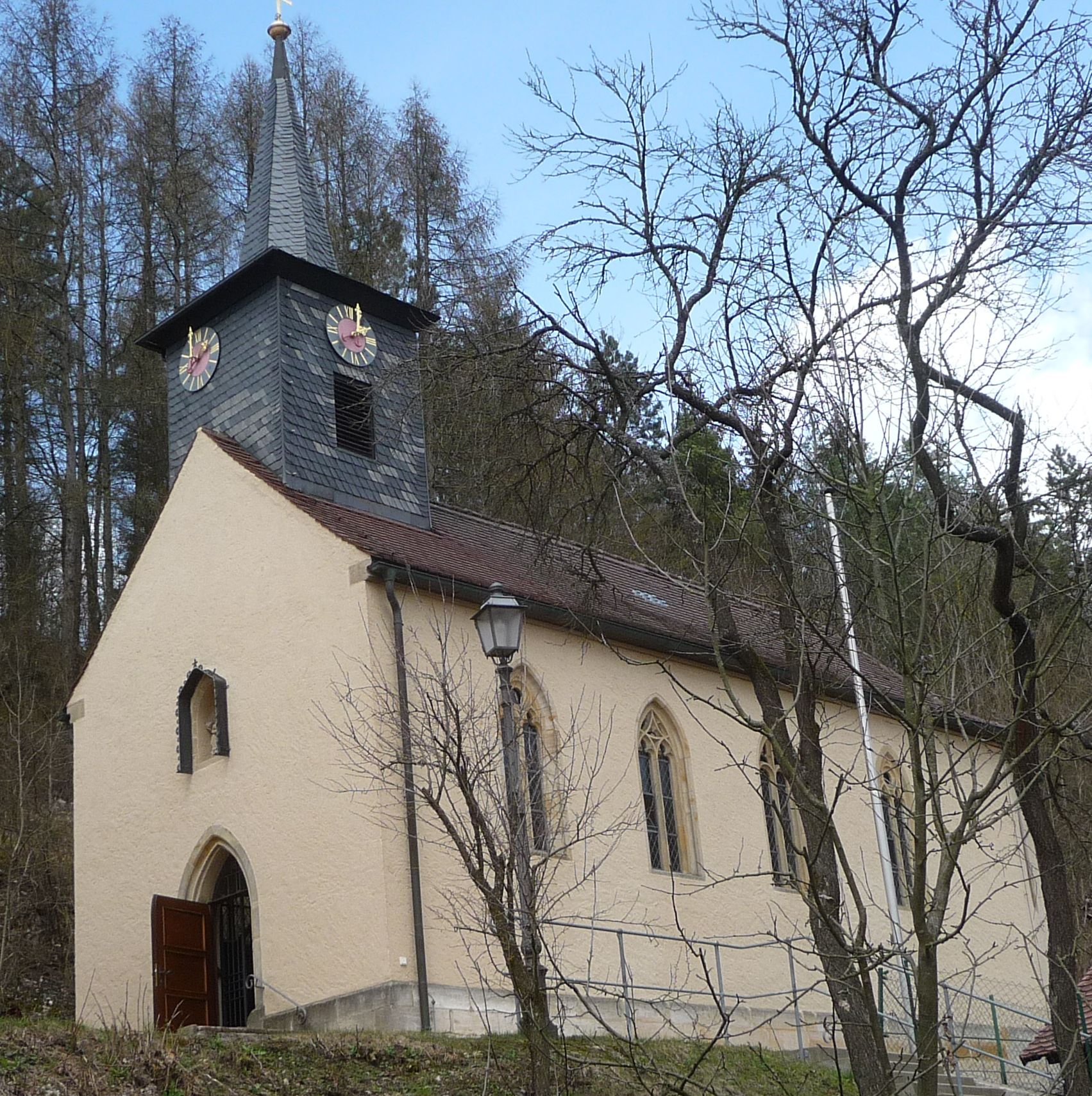 Tiefenhöchstadt